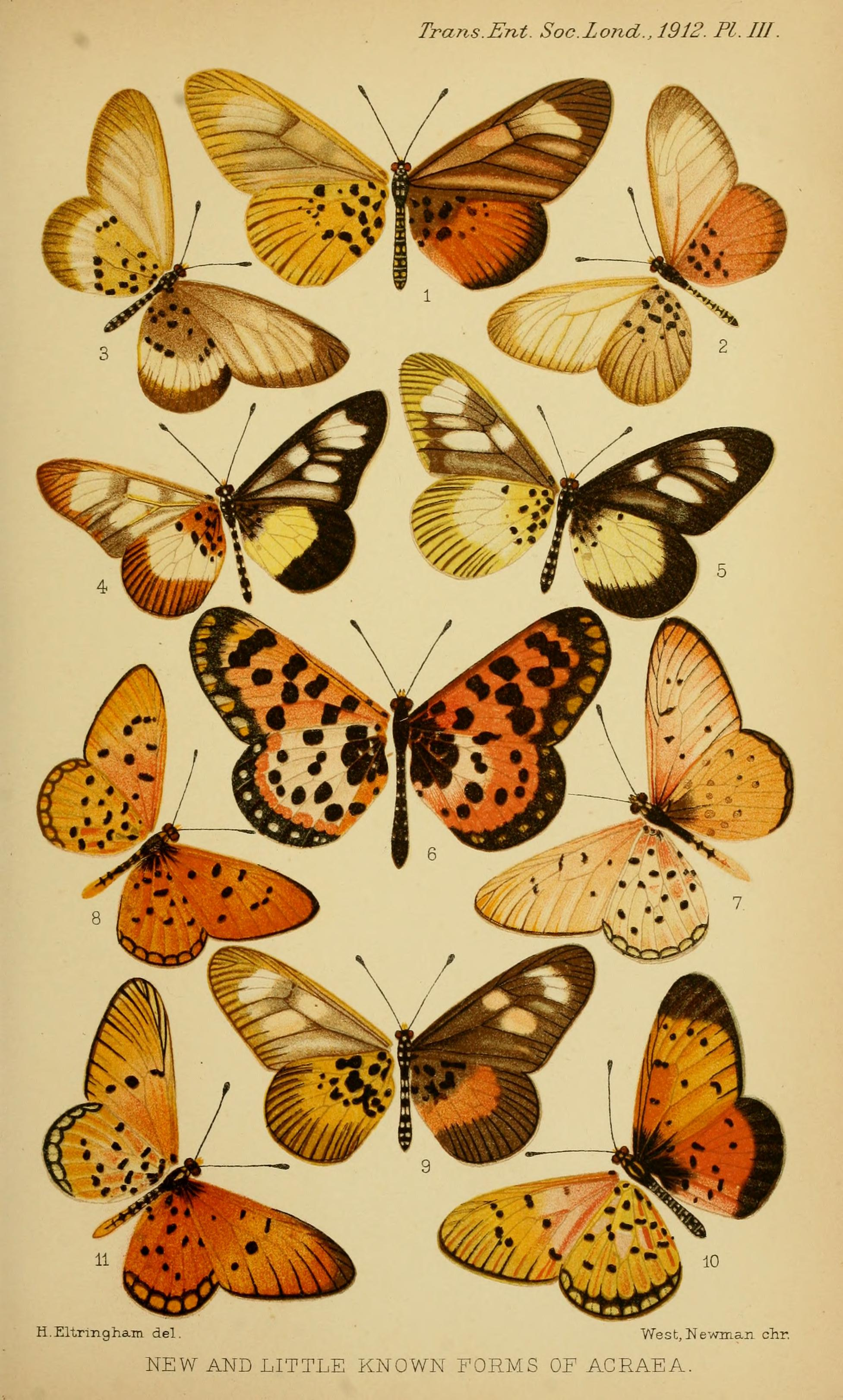 Eltringham, H, 1912, A Monograph of the African species of the Genus Acraea, Fab., with a supplement on those of the Oriental Region.Transactions of the Royal Entomological Society of London Volume 60, Issue 1, pages 1-369 Plate 3 text 1 Acraea parrhasia parrhasia female Acraea parrhasia (Fabricius, 1793) 2 Acraea parrhasia f. leona female [Acraea leona Staudinger, 1896 synonym for Acraea circeis (Drury, 1782)] 3 Acraea peneleos f. lactimaculata female synonym for Acraea peneleos Ward, 1871 4 Acraea servona rhodina male synonym for Acraea parrhasia 5 Acraea servona orientis female synonym for Acraea parrhasia ssp. orientis Aurivillius, 1904 6 Acraea oscari male Acraea oscari Rothschild, 1902 7 Acraea pudorella pudorella male Acraea pudorella Aurivillius, 1899[ 8 Acraea acrita manca male synonym for Acraea lualabae Thurau, 1904 9 Acraea servona f rubra synonym for Acraea parrhasia(Fabricius, 1793) 10 Acraea periphanes f. melaina synonym for Acraea periphanes Oberthür, 1893 11 Acraea periphanes f. acritoides synonym for Acraea periphanes Oberthür, 1893